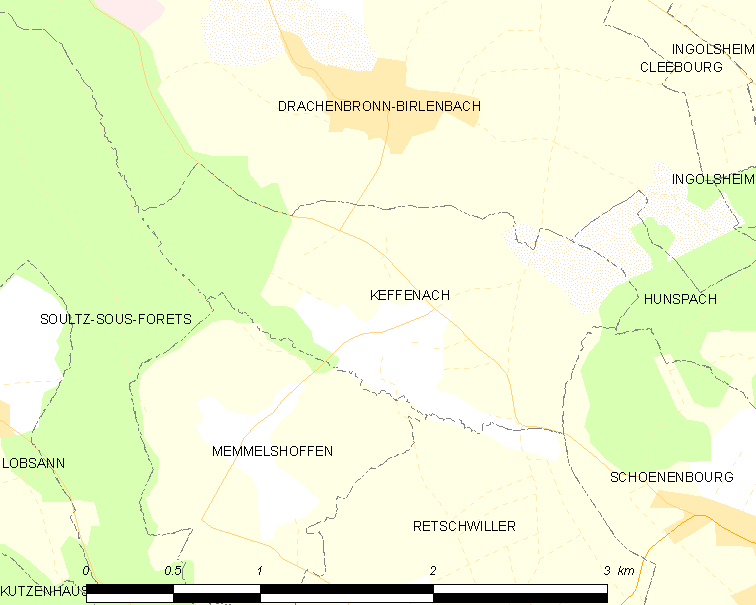 Map of French municipality